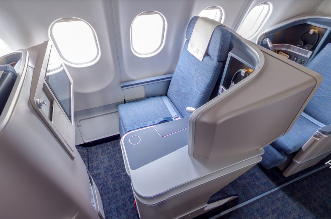 Philippine Airlines business class new Airbus A350-900 in Tri-class configuration